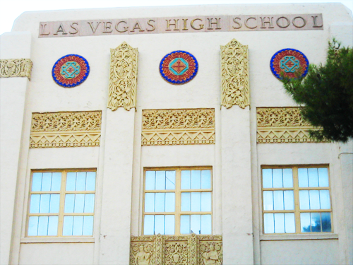 The facade of Las Vegas Academy — in Las Vegas, Nevada. On the National Register of Historic Places in Clark County, Nevada.